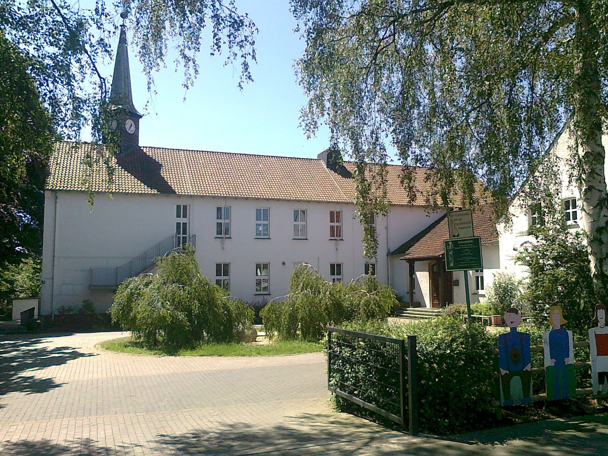 Volmerdingsen primary school